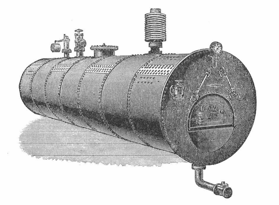 Fig. 26 Cornish boiler